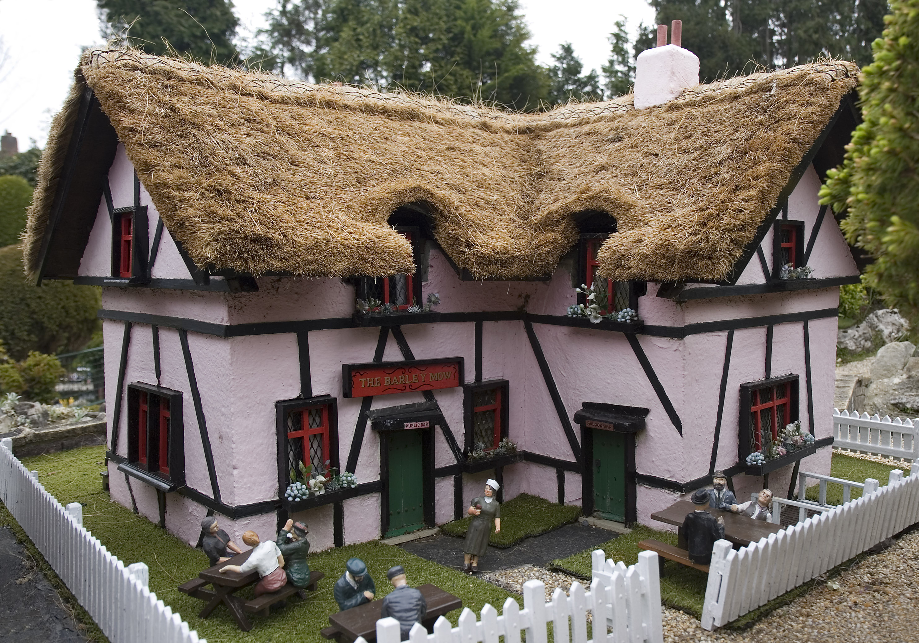 Thatched pub, Bekonscot